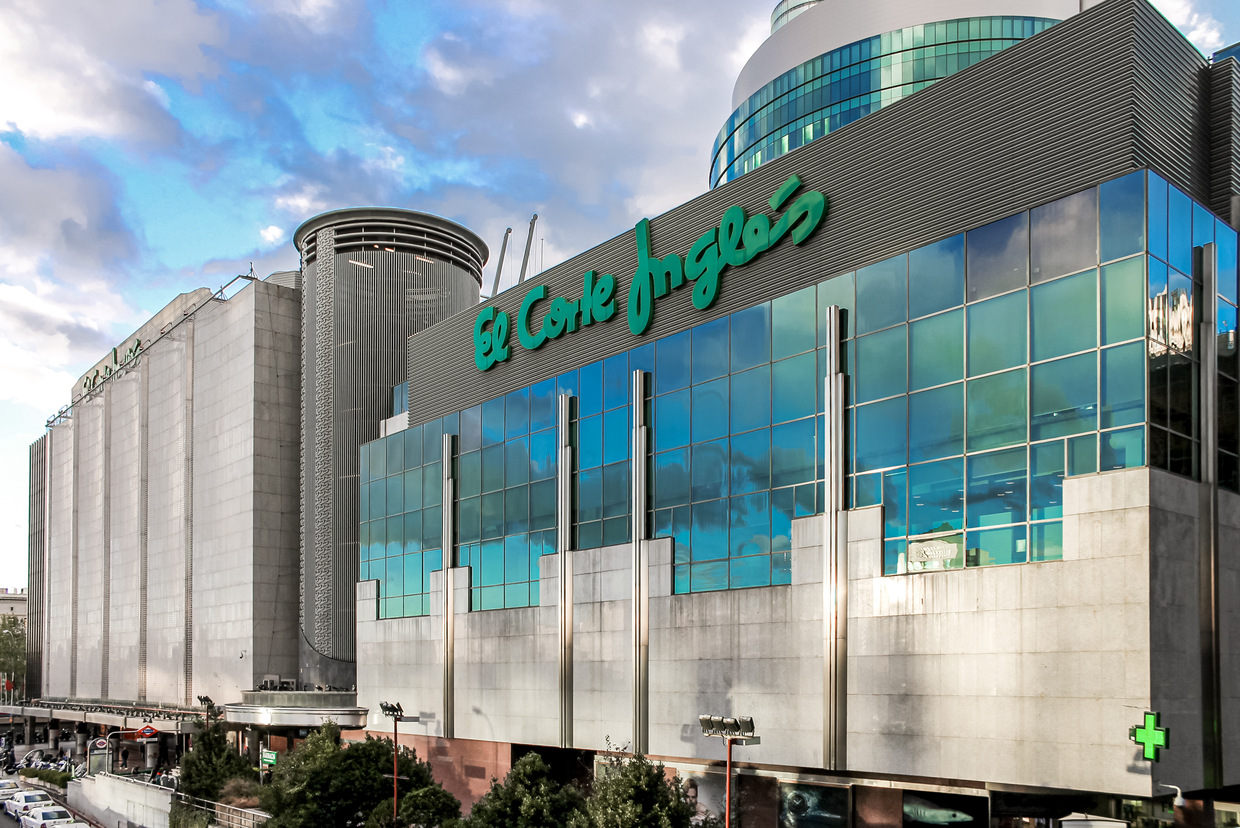 Façade of El Corte Inglés shopping mall at 71 Paseo de la Castellana (avenue) in Madrid (Spain).